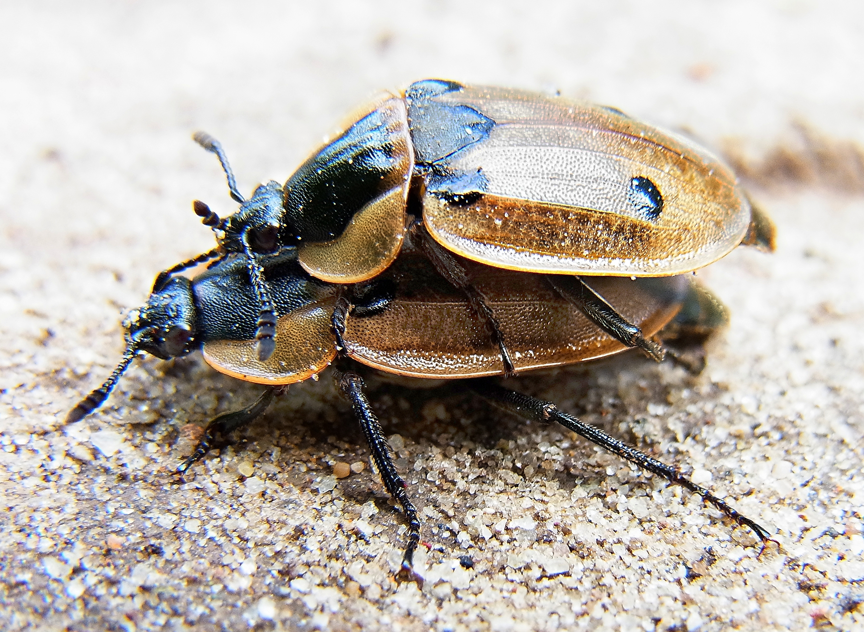 couple of Dendroxena quadrimaculata from Southwest-Hungary near Nagykanizsa at 2012-04-24